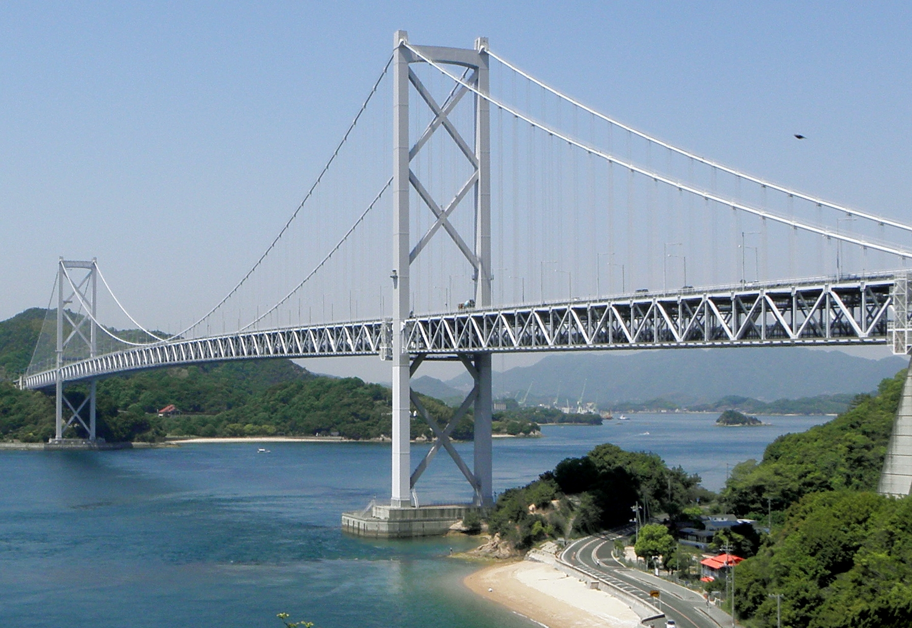 Innoshima Bridge taken from Mukaishima